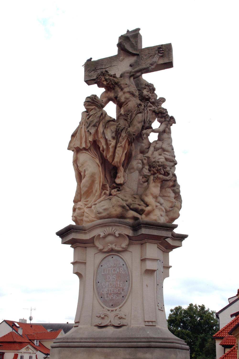 Prague, Charles Bridge, St Luitgarde (M. B. Braun)